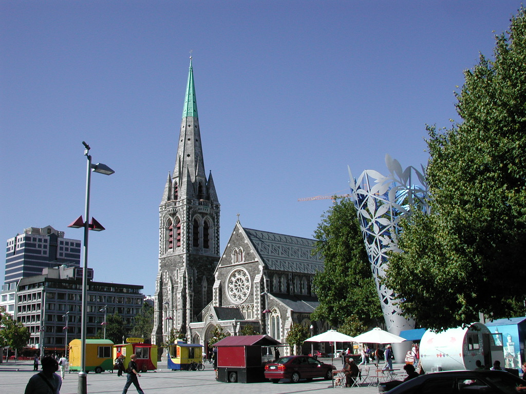 ChristChurch Cathedral viewed across Cathedral Square.